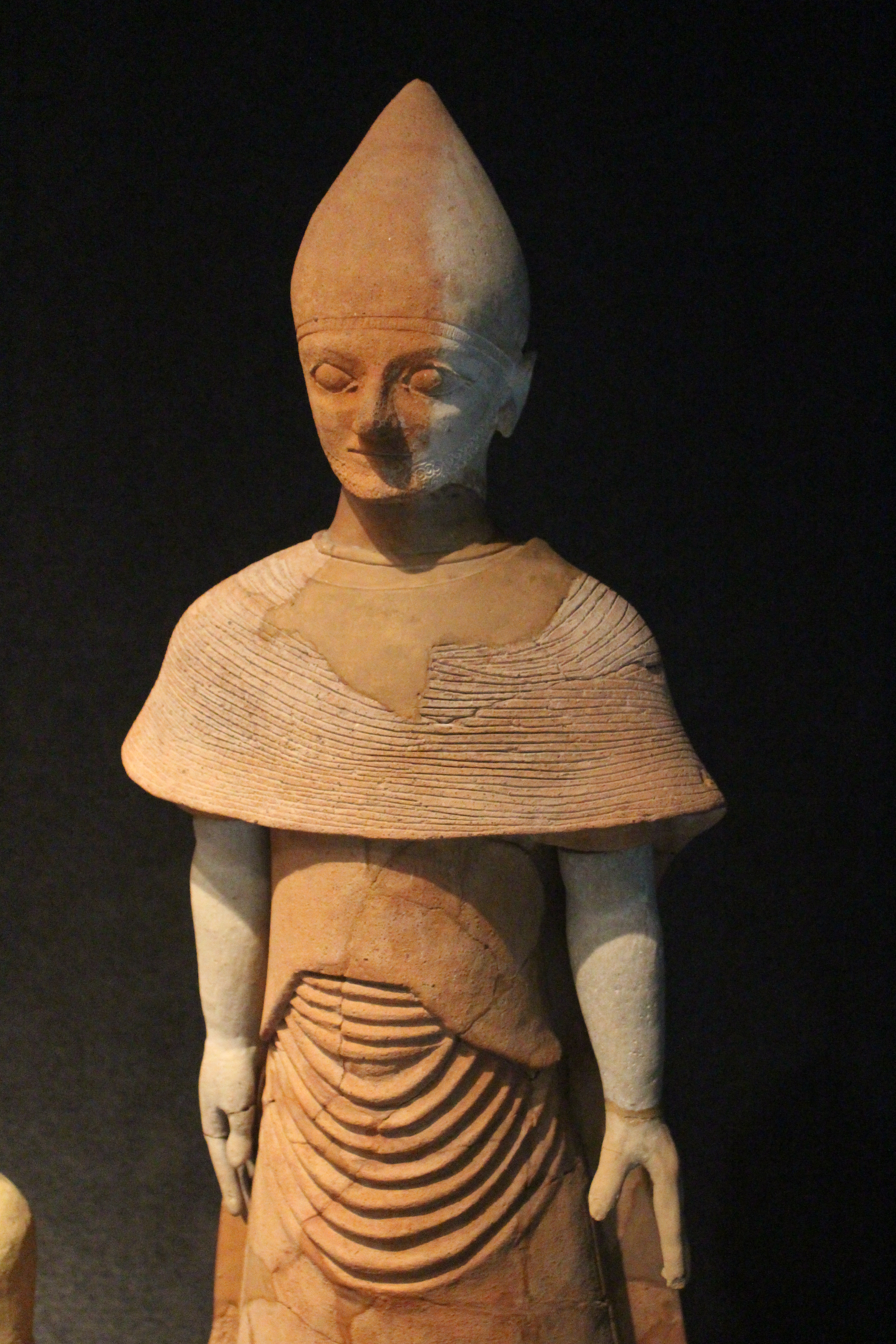 Votive. Terracotta figurine from Ajia Irini, Cyprus This is a photo of an artwork at the Mediterranean Museum in Sweden with the identifier: Votives